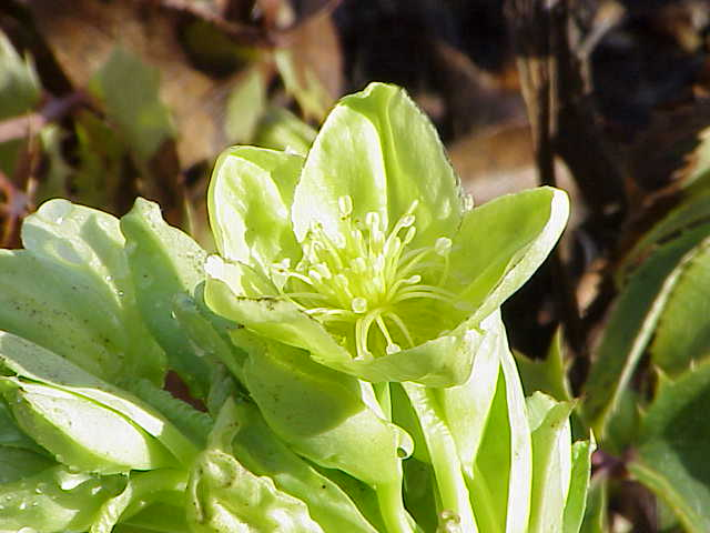 Species: Helleborus lividus corsicus Family: Ranunculaceae Image No. 1